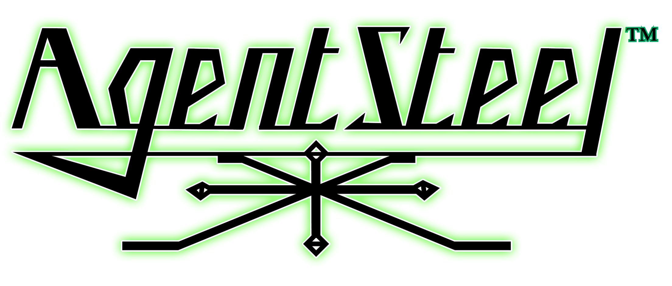 The official logo of legendary speed metal band Agent Steel, featuring the band’s signature “Universal Life Force Insignia”, as well as a green glow outline.